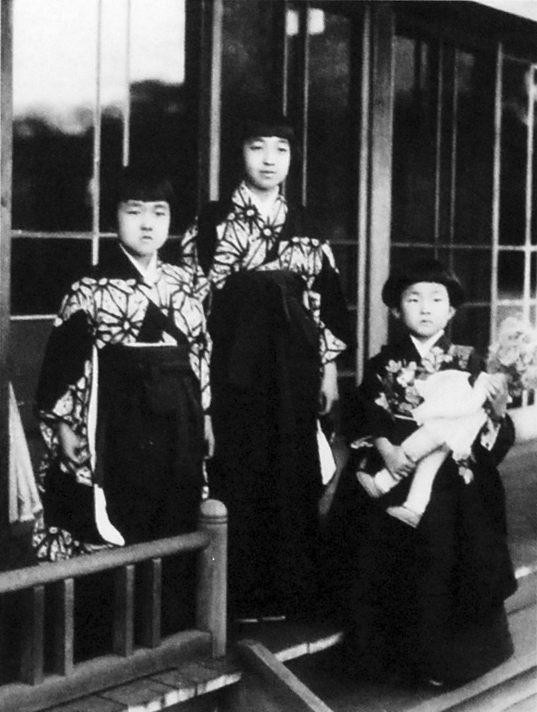 The daughters of Emperor Shōwa in front of their dormitory. From left Princess Kazuko, Princess Shigeko, and Princess Atsuko.